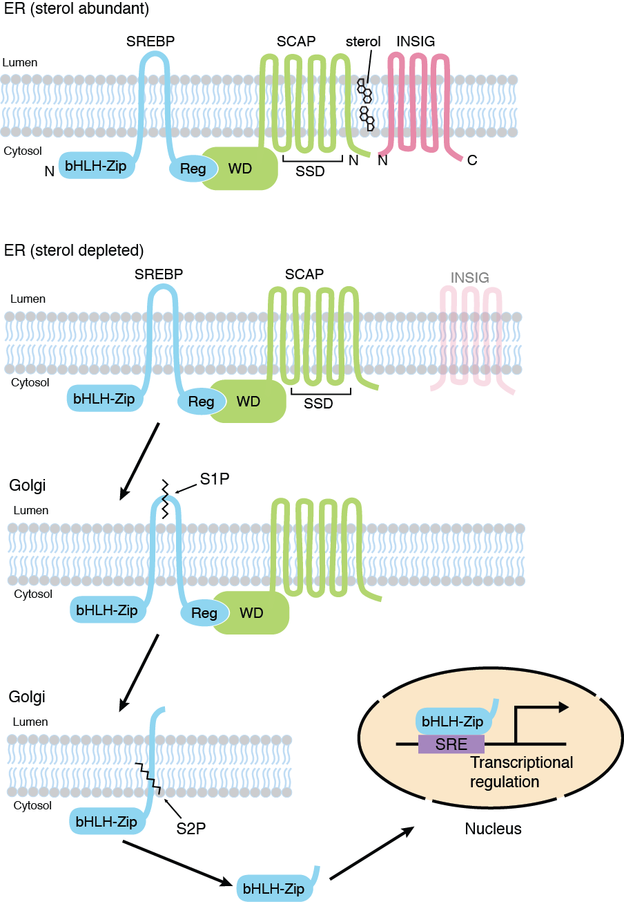 When sterol levels are high in the endoreticulum (ER), SREBP, SCAP and INSIG form a stable complex. When sterol levels drop, SCAP dissociate from INSIG and escorts SREBP into the Golgi apparatus, where two proteases, S1P and S2P, act sequentially to release the N-terminal bHLH domain of SREBP. The SREBP bHLH domain enters the nucleus to activate the transcription of genes with SREBP-responsive elements (SRE). Genes regulated by SREBP usually function to increase cellular sterol content, including the genes involved in sterol synthesis and the uptake of low-density lipoprotein (LDL).